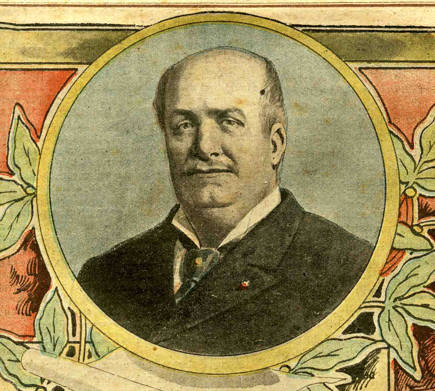 French banker and politician Edouard Aynard